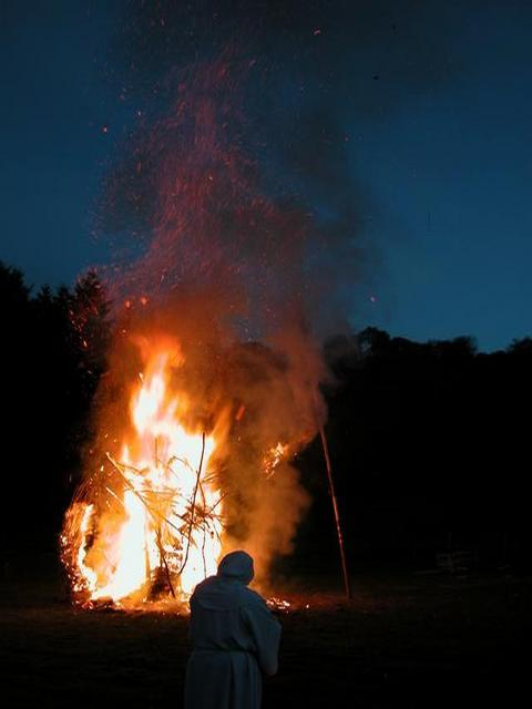 Beltain Festival at Butser Ancient Farm Burning the Wicker Man (Edward Woodward was nowhere to be seen) during the Beltain Festival at Butser Ancient Farm which demonstrates the Celtic and Roman way of life in early Britain.